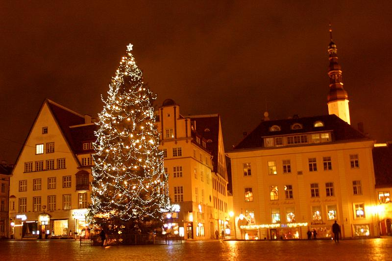 A Christmas tree on the Town Hall Square (Raekoja plats), Tallinn, Estonia.